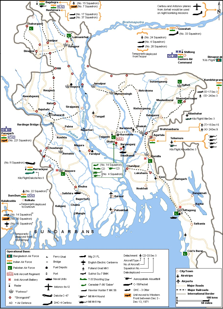 Updating existing file with information on Kilo Flight